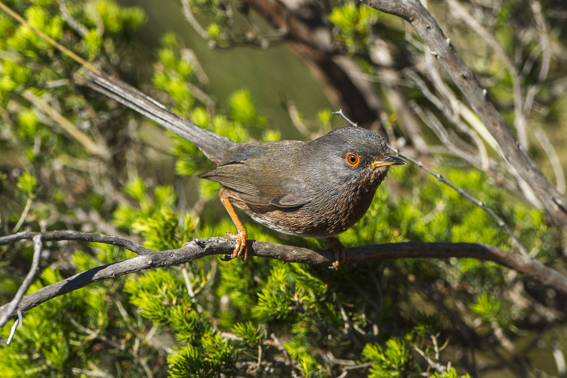 Dartford Warbler - Arenzano - Italy_210